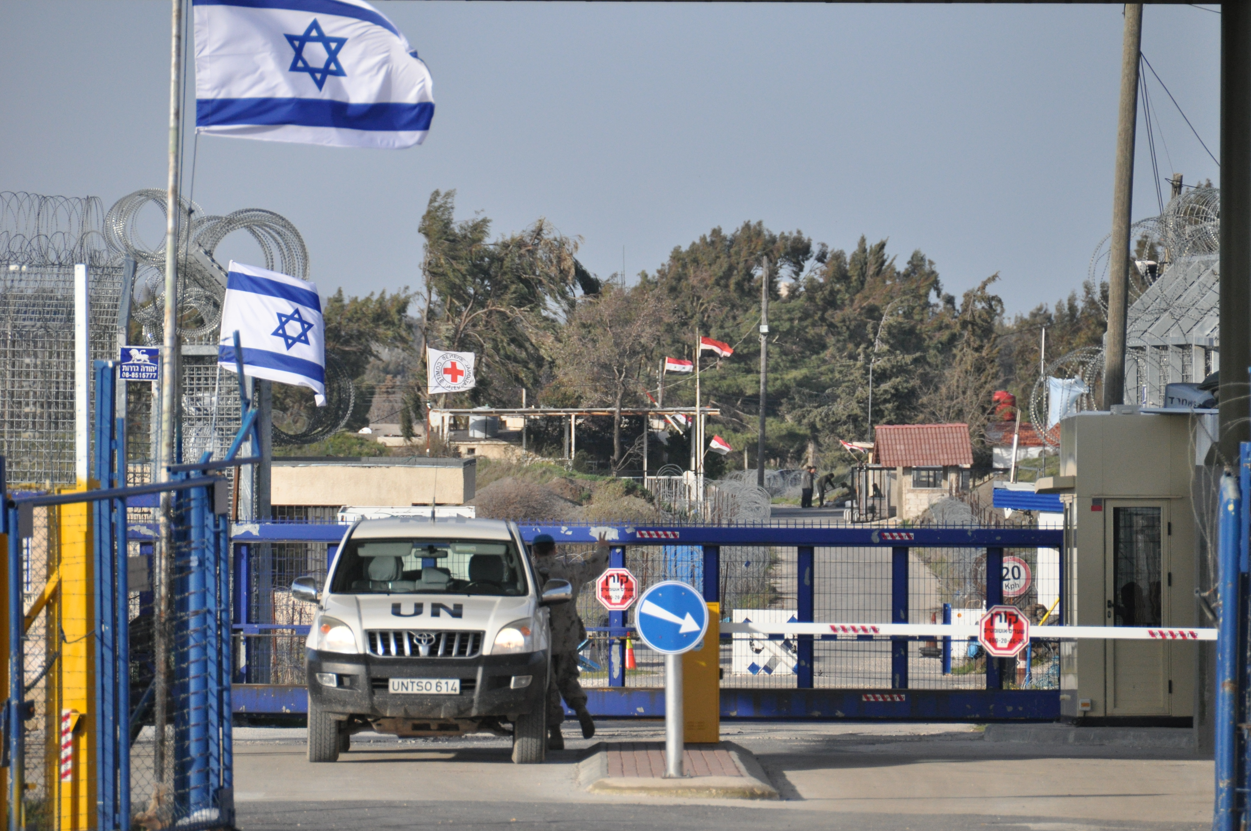 UN-controlled border crossing point between Syria and Israel at the Golan Heights